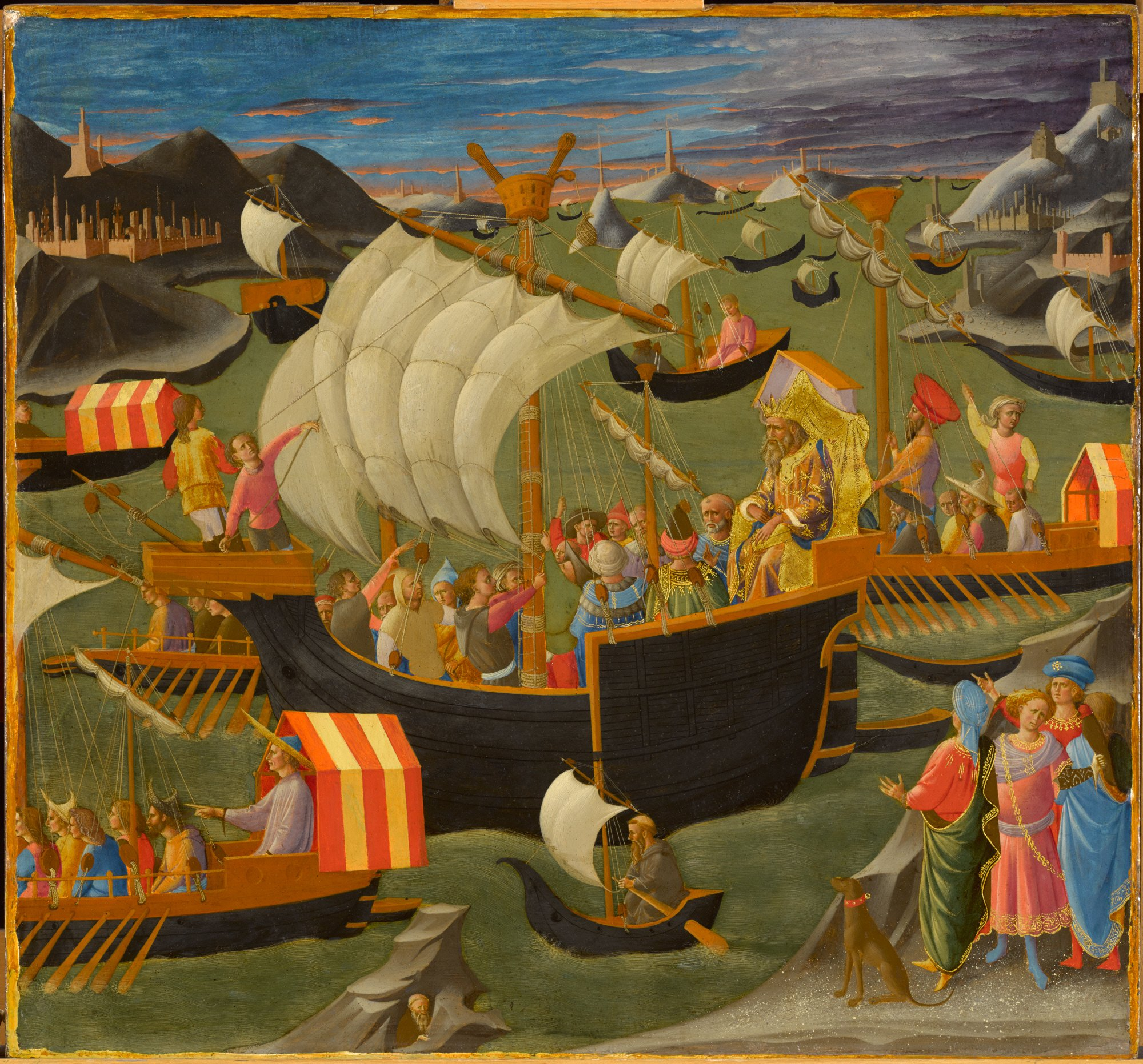 Pesellino, Journey of the Magi, Melchior Crossing the Red Sea, ca. 1440-45, Williamstown, Sterling and Francine Clark Art Institute